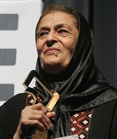 1st Iranian cinema actors celebration